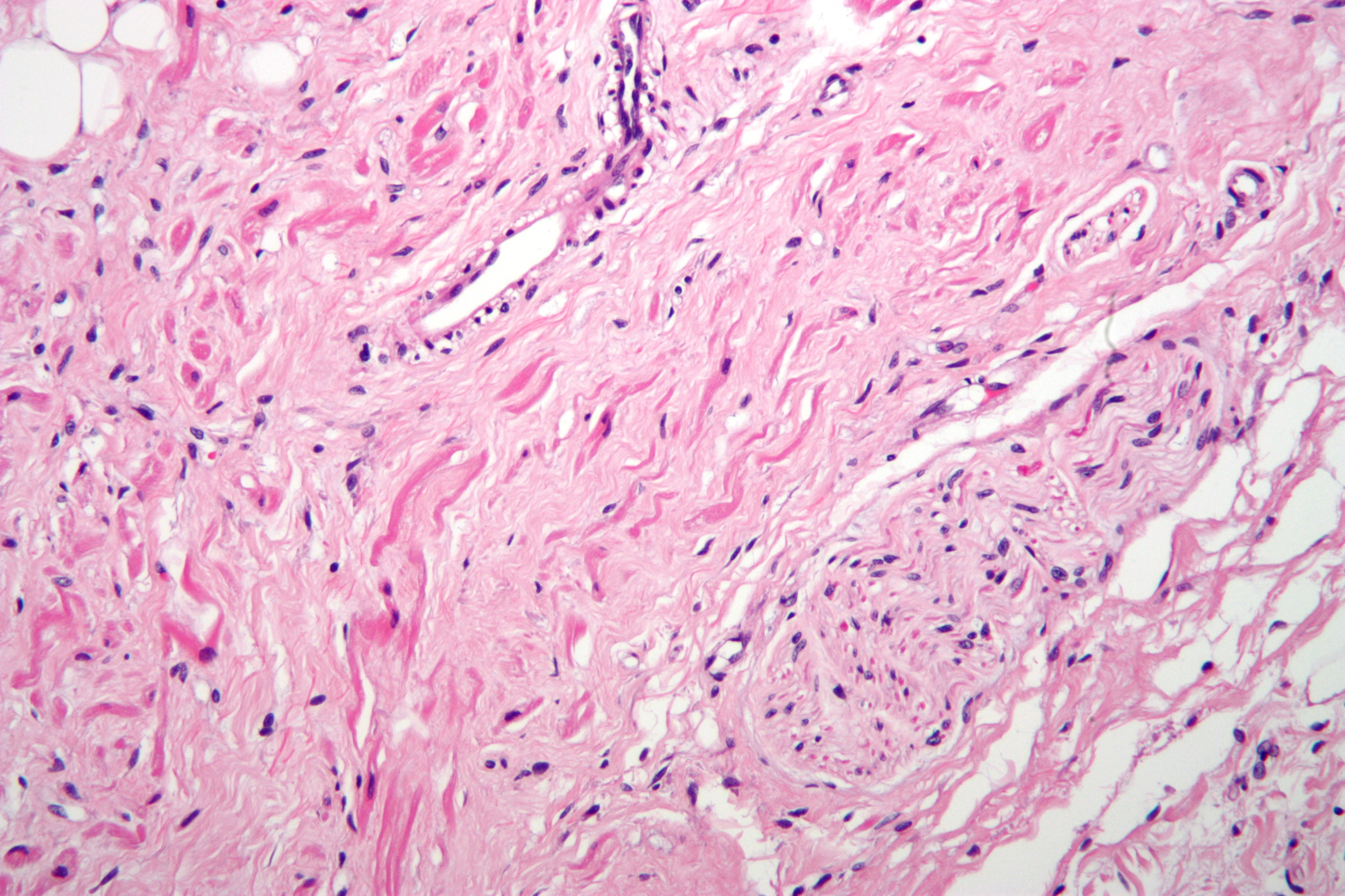 High magnification micrograph of sinoatrial (SA) node tissue. H&E stain. The SA node fibre vaguely resemble cardiac myocytes; however, they are thinner, squiggly and stain less intensely (on H&E) than cardiac myocytes. Adjacent to nodal tissue is nerve fibre. The SA node interacts with fibres from the vagus nerve.